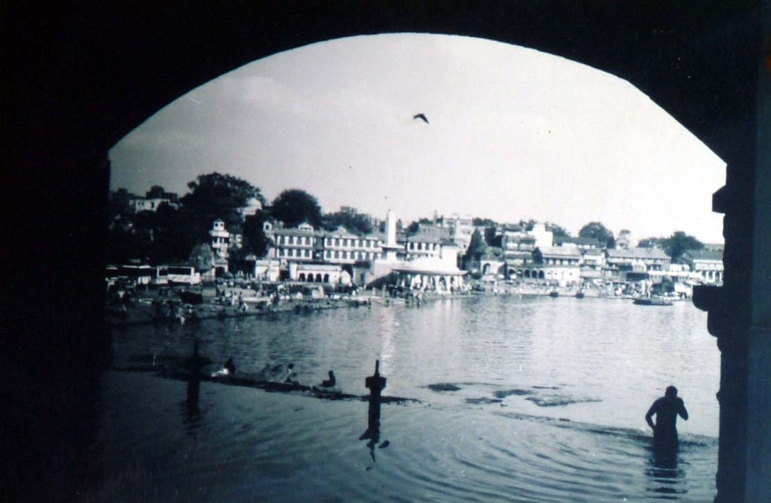 Nashik Ghats as seen through the arch of Victoria Bridge